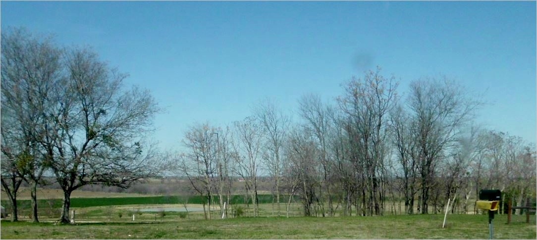 The name originated from the very spot